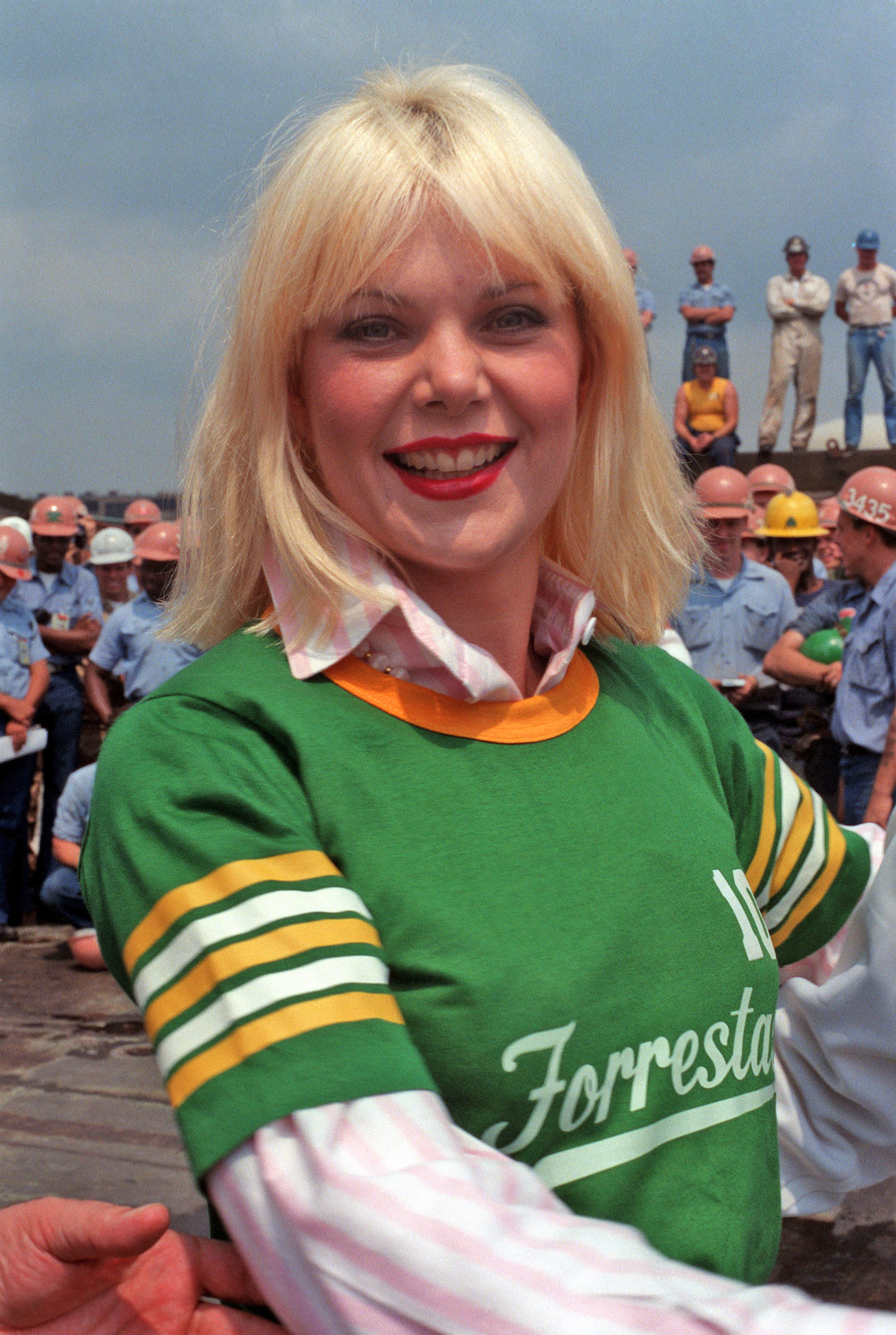 Original caption: Actress Ann Jillian visits sailors and shipyard workers during a 30-minute show with Bob Hope on board the aircraft carrier USS FORRESTAL (CV 59). Location: Philadelphia, Pennsylvania (PA) United States of America (USA).